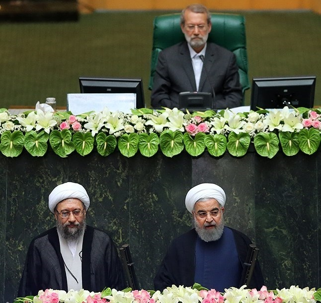 Second inauguration of Hassan Rouhani at the Parliament of Iran